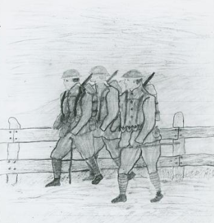 Horace Pippen, Three Soliders on March, War Diary Notebooks, 1917-1918